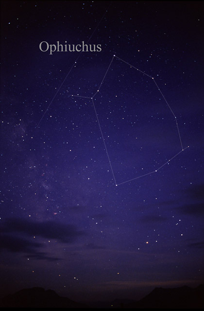 Photography of the constellation Ophiuchus, the serpent bearer